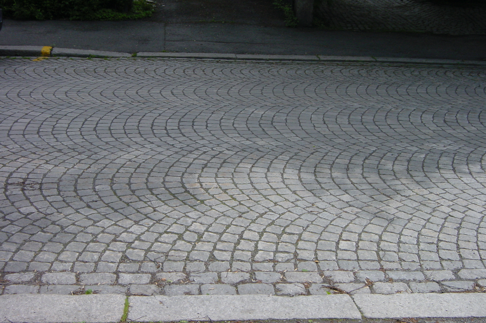 Pavement from the 1930s with setts. Fagerborggaten, Oslo